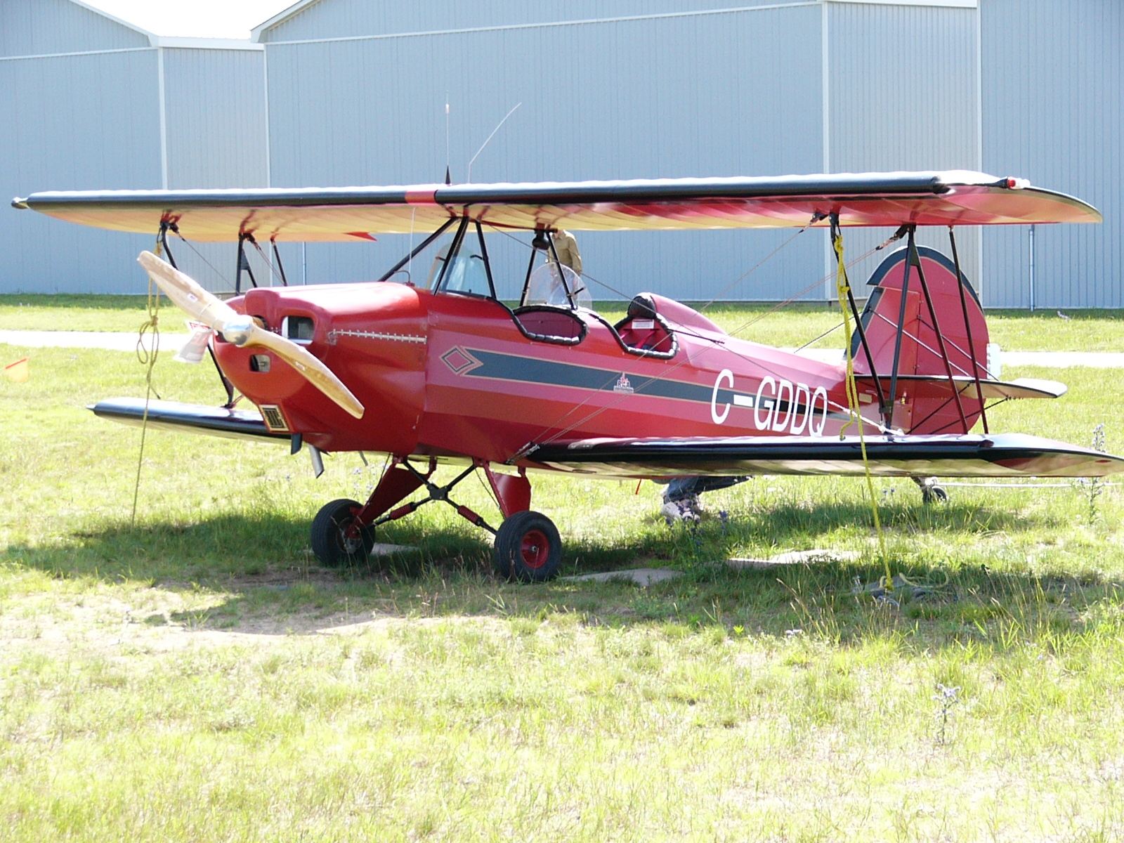 Fisher Celebrity biplane at the Midland, Ontario, Canada fly-in